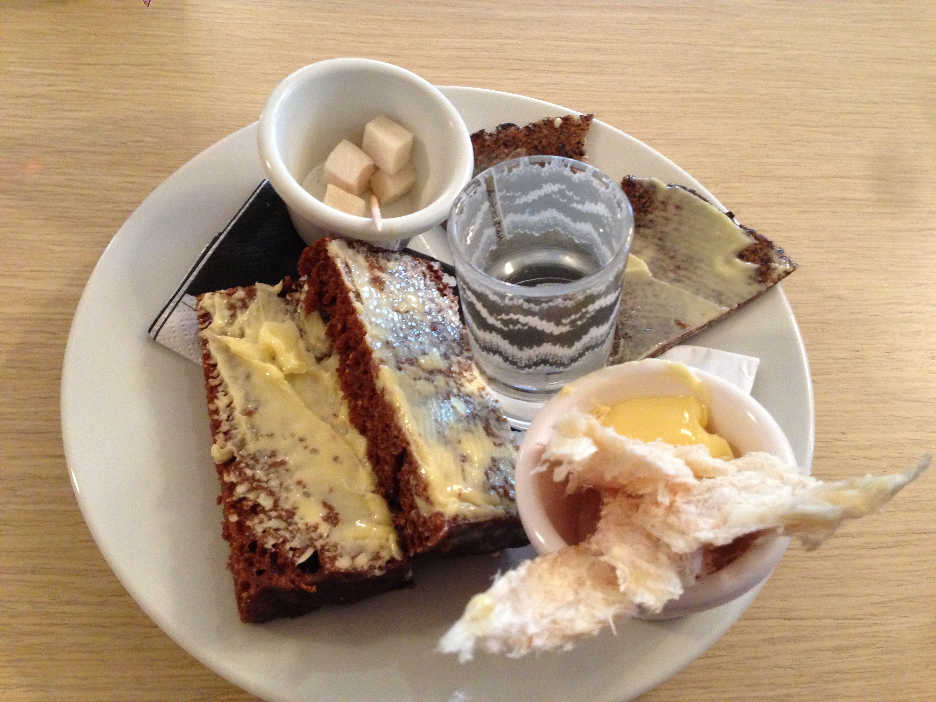 Typical Icelandic braveheart meal